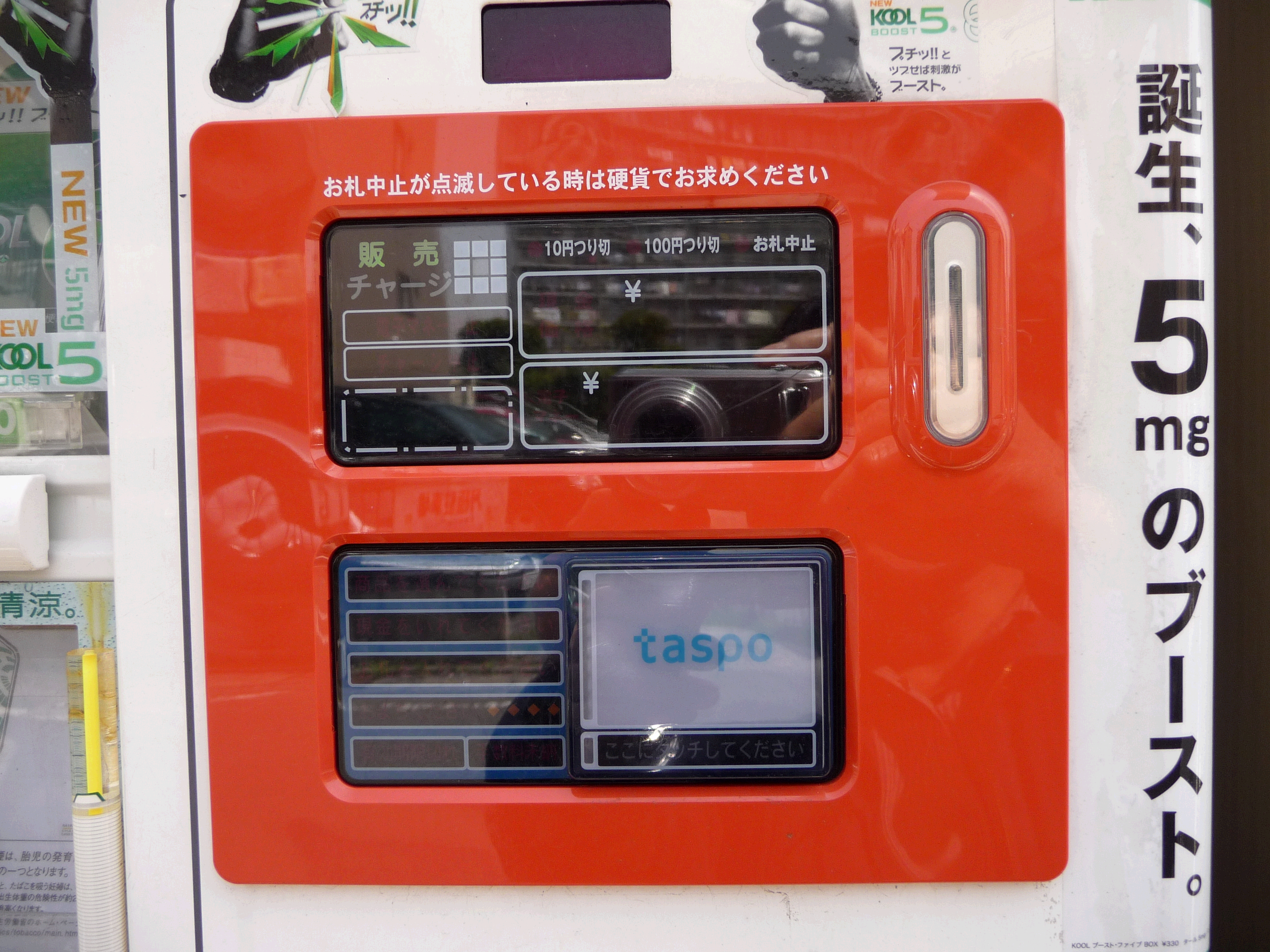 "taspo" card Age Validation unit mounted in the cigarette vending machine in Japan